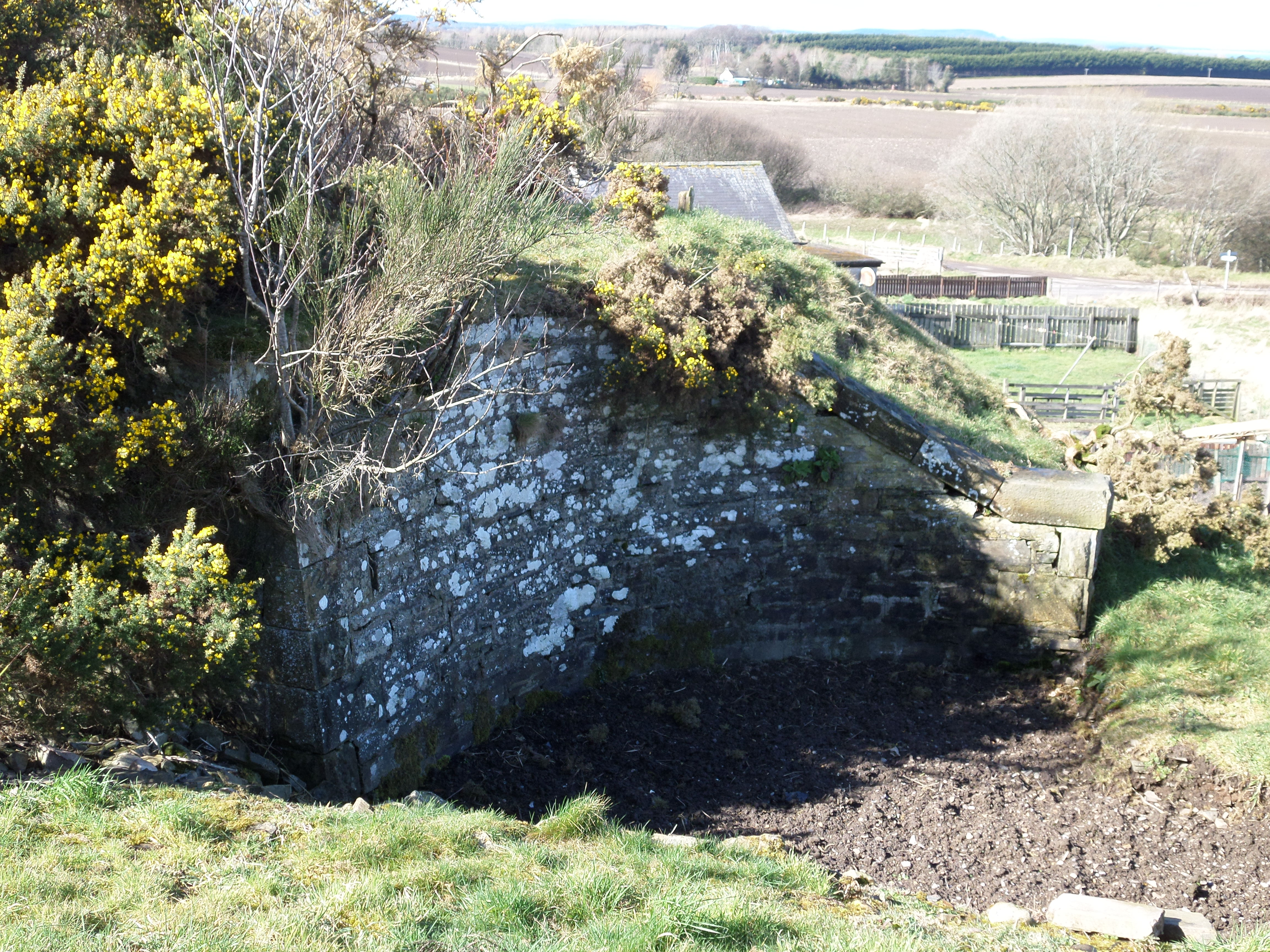 Ruins of old road overbridge at Drybridge (Letterfourie) railway station, Rathven, Moray, Scotland.